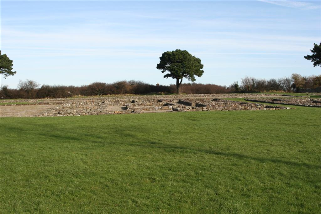 Segontium Roman Fort Caernarfon Rhion Pritchard, 10/02/2006